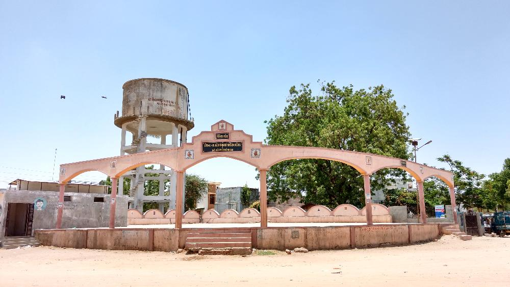 Umiya Chowk - An Area located in the middle of Kherva Village